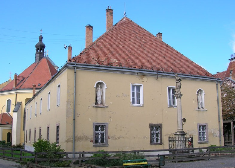 music school Gyöngyös